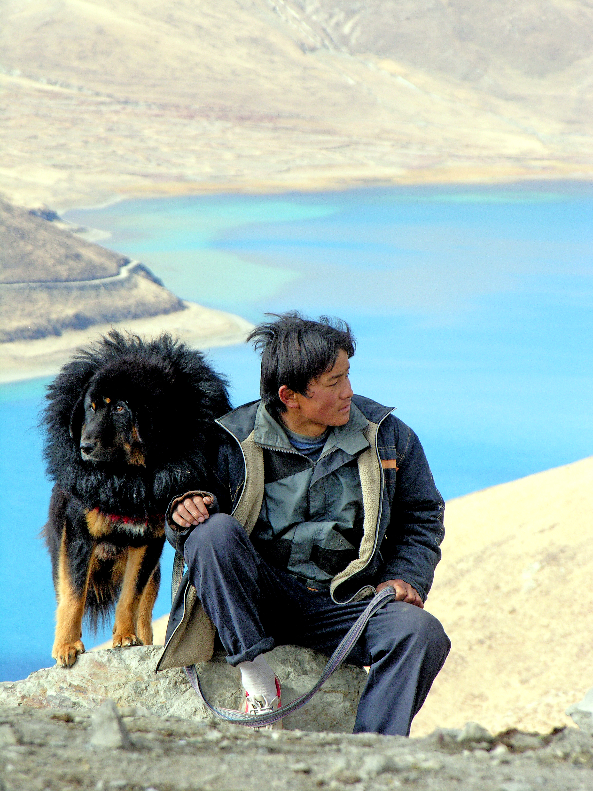 This man was offering to have people take their picture with his dog. Gonggar Mountain – over 4,500 meters, Tibet